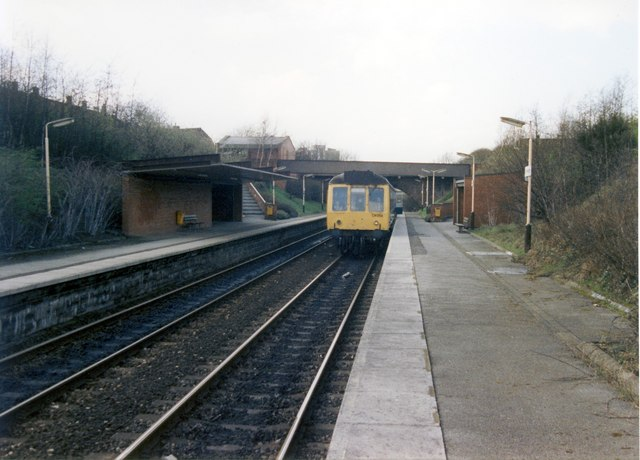 Brinnington railway station Original description: Brinnington station